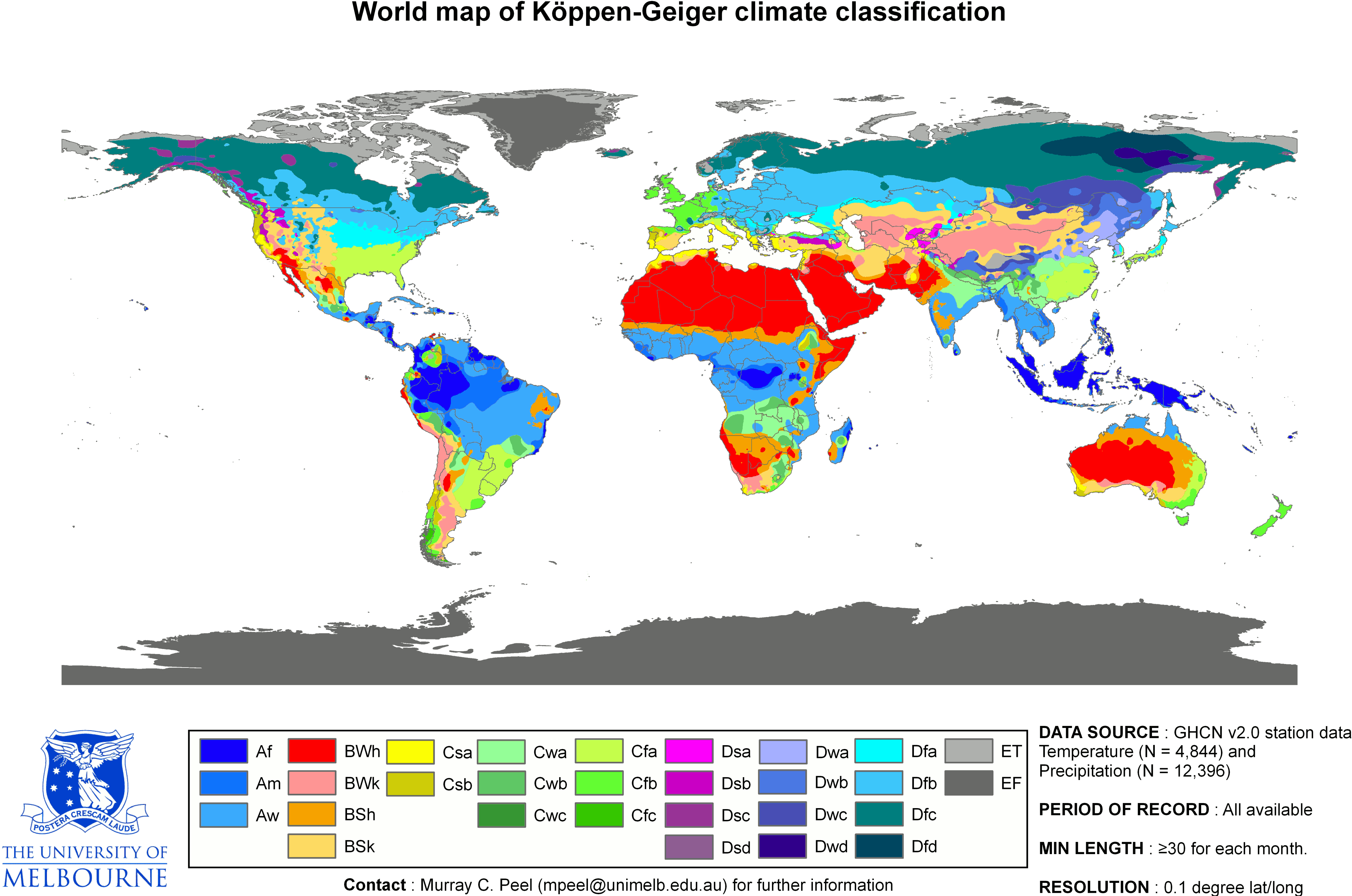 Updated world map of the Köppen-Geiger climate classification.